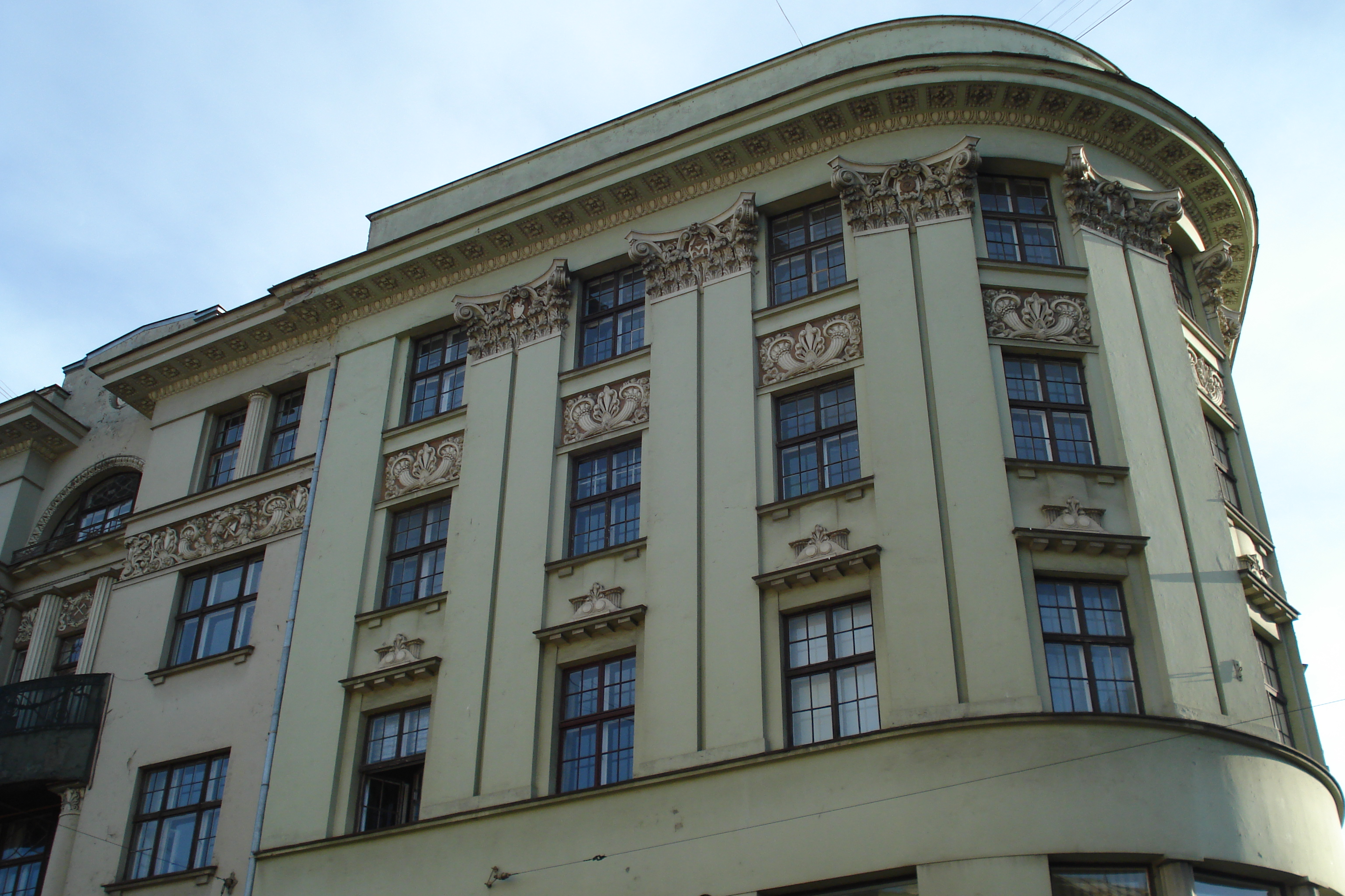 National Library of Latvia. 1910. Krišjāņa Barona streetLatviešu: Rīgas amatnieku krājaizdevu kases (bankas), tag. Nacionālās bibliotēkas ēka, 1910, arh. ErnestsPole. Neoklasicisma apbūve. Krišjāņa Barona iela 14